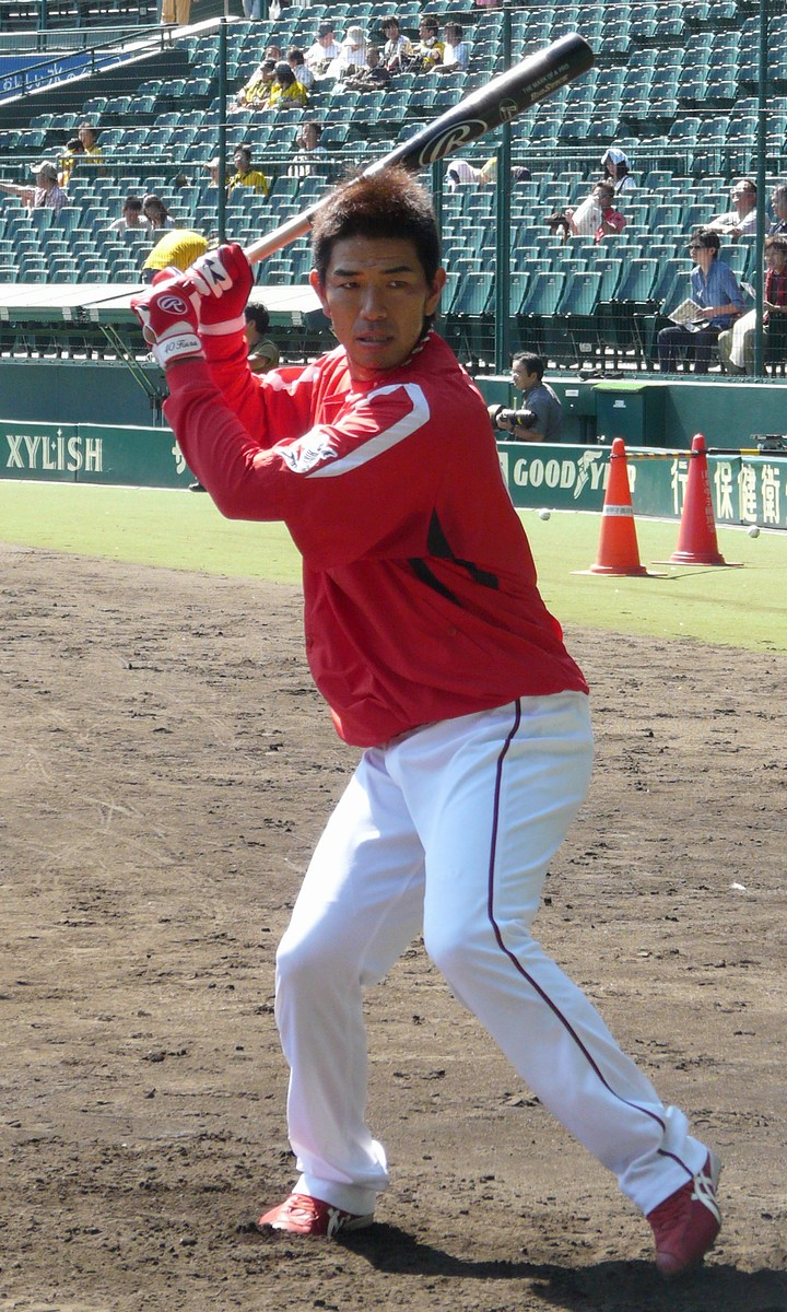 Yoshikazu Kura, catcher of the Hiroshima Toyo Carp, at Hanshin Koshien Stadium.